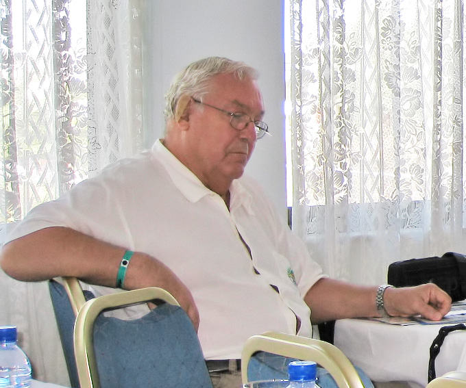 Yuri Vasilyevich Gulyayev, member of Russian Academy of Sciences